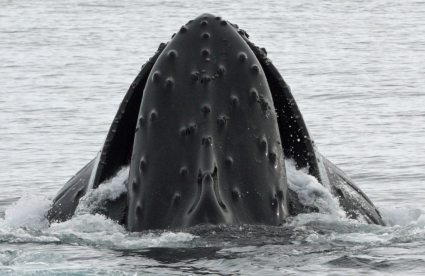 Humpback whale (Megaptera novaeangliae) lunging at the surface while feeding in Fournier Bay, Antarctica. The original NOAA image has been modified by adjusting brightness and contrast.